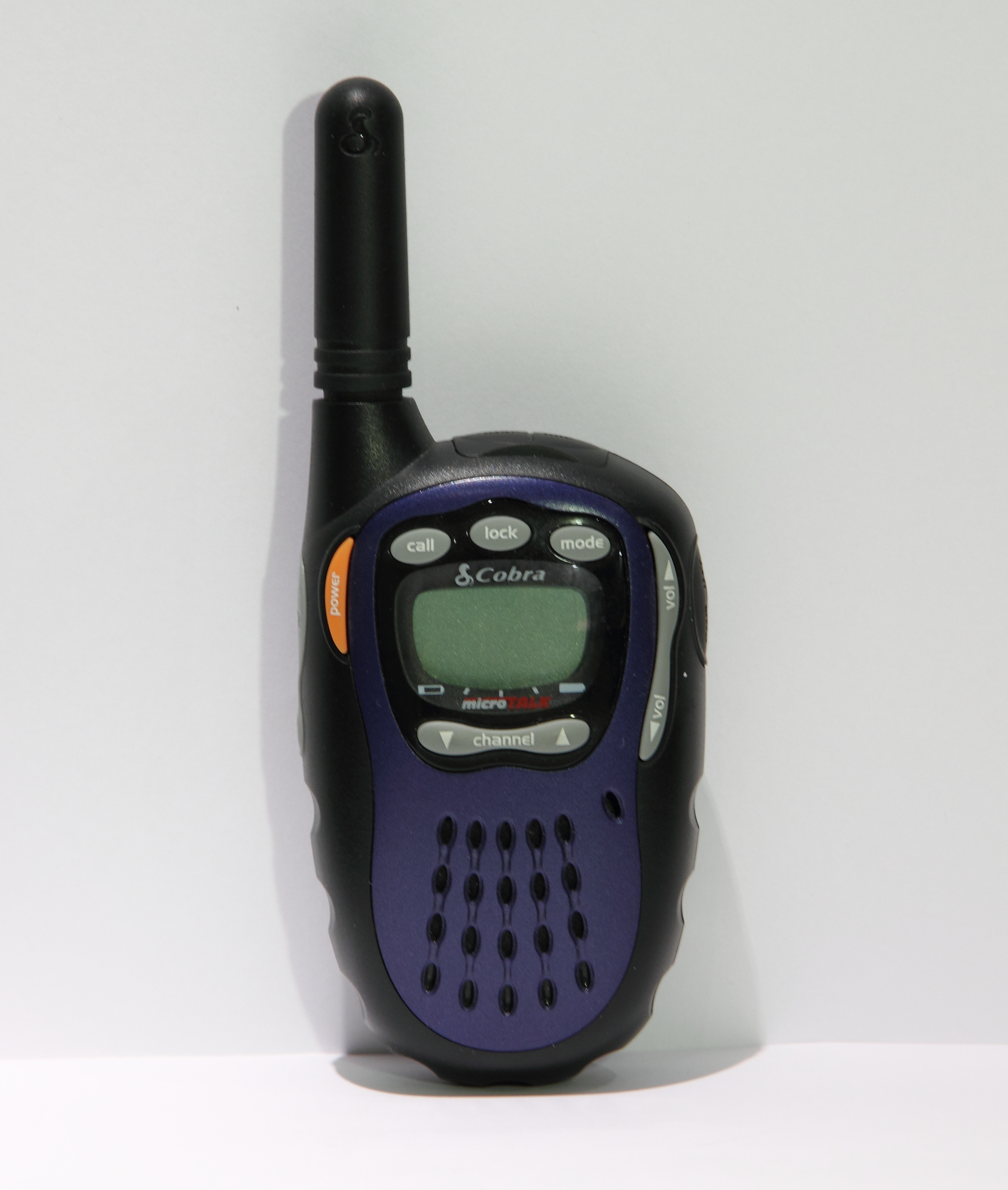 A PMR radio made by Cobra